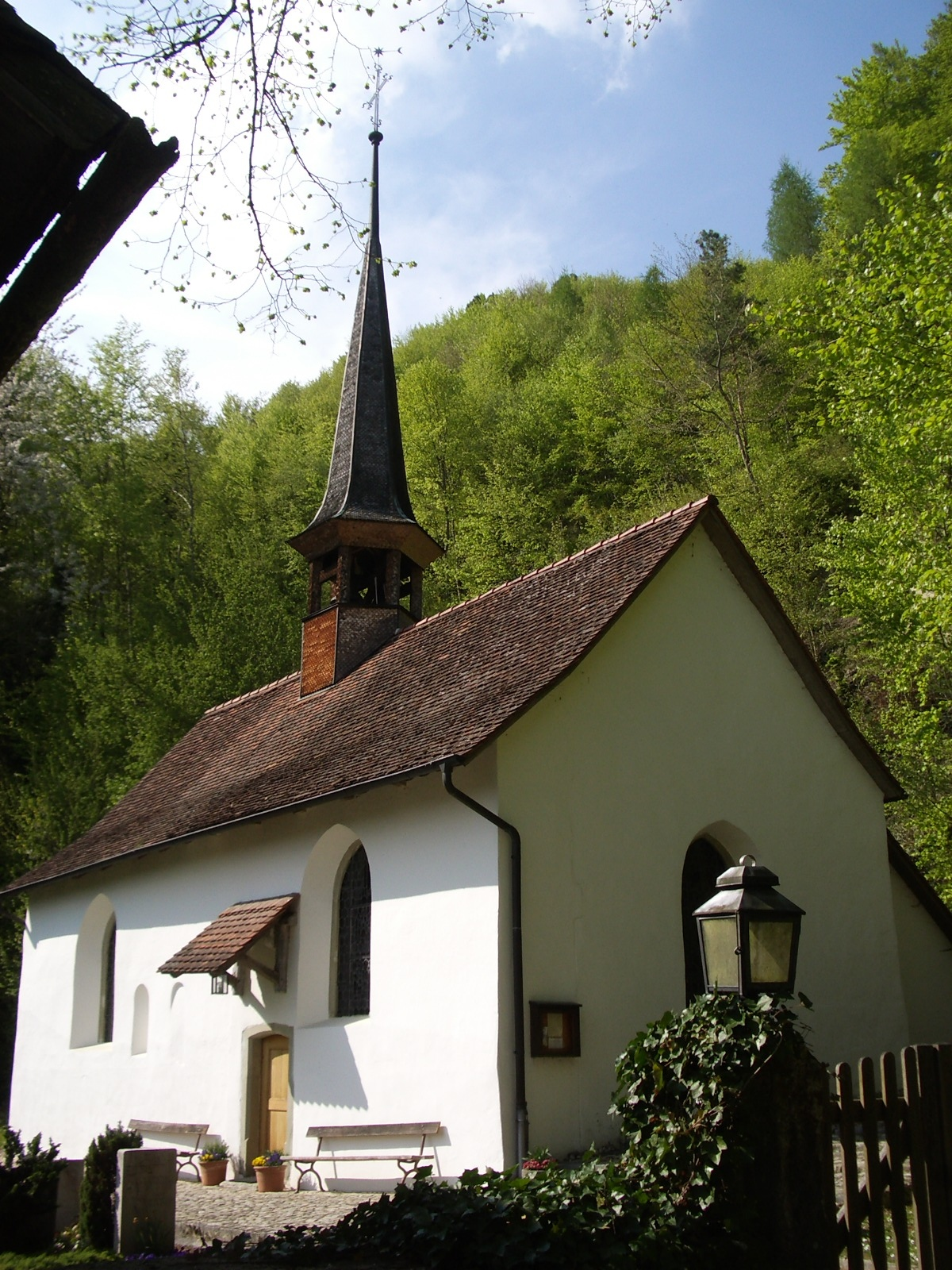 Balm bei Messen SO, Switzerland